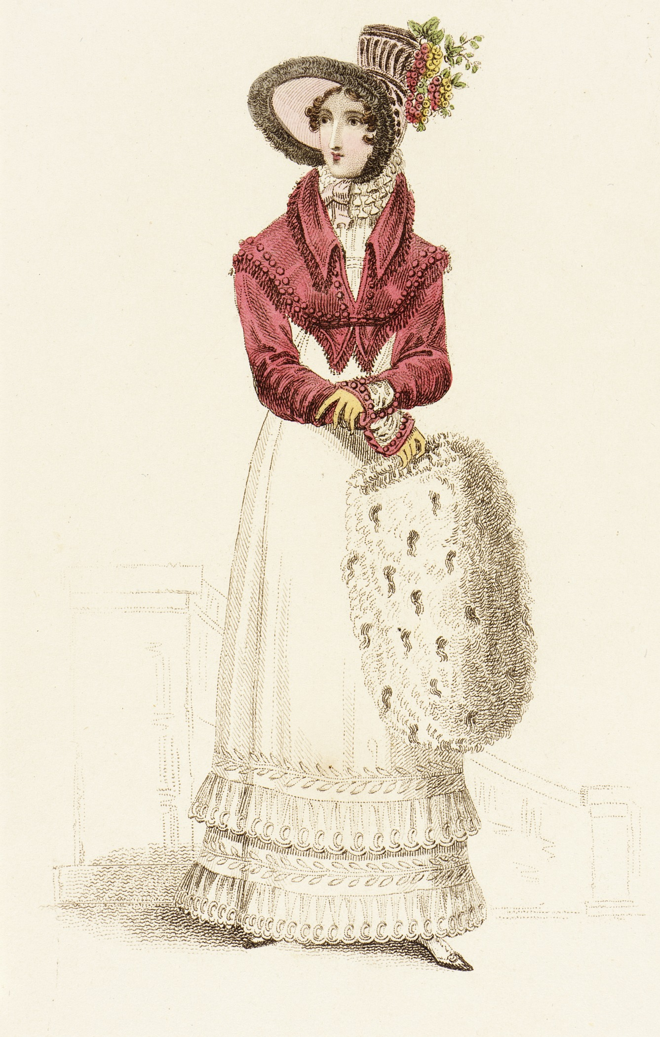 England, London, December 1, 1819 Prints; engravings Hand-colored engraving on paper Gift of Dr. and Mrs. Gerald Labiner (M.86.266.282) Costume and Textiles